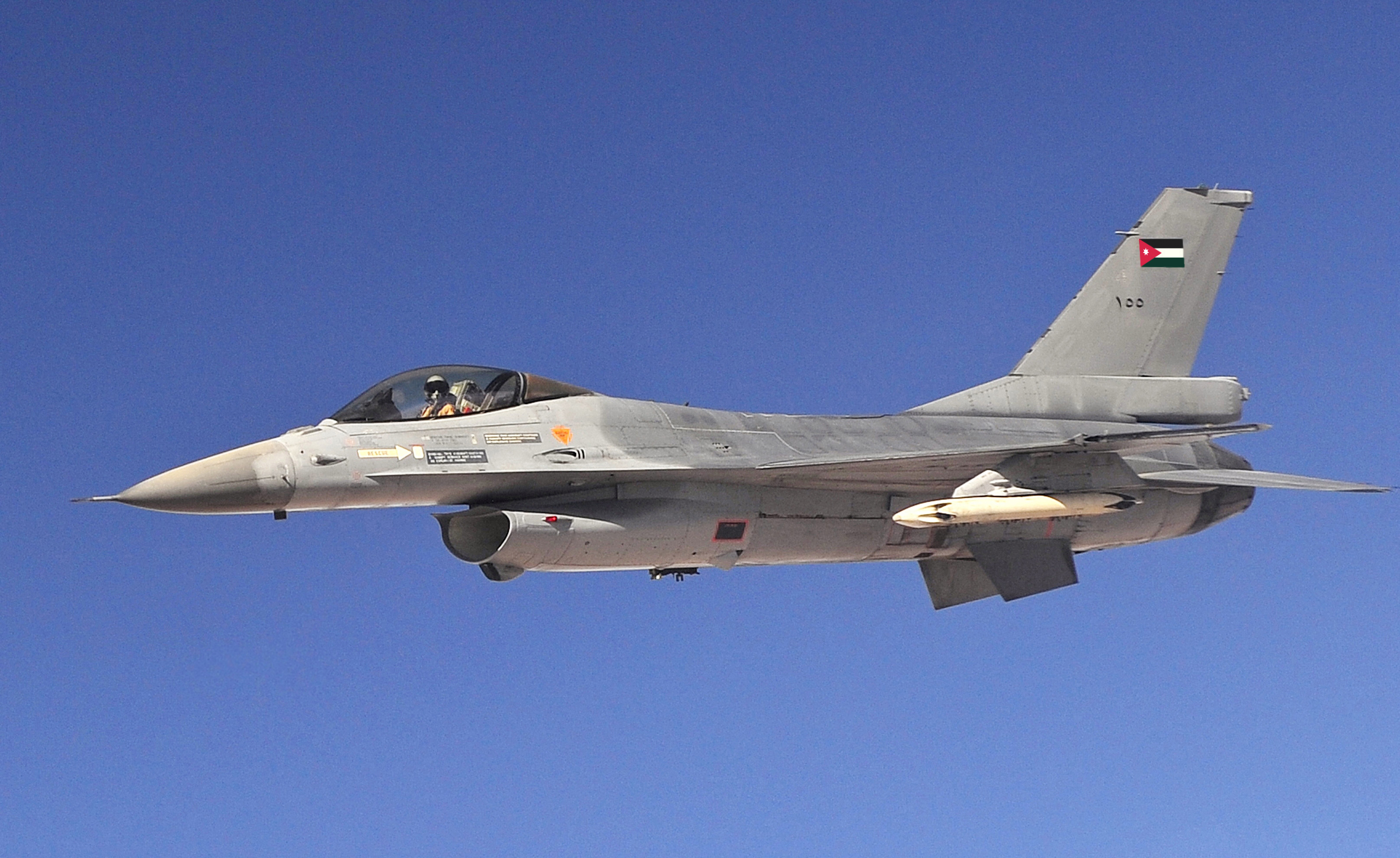 (Cropped and modified image) Jordanian F-16 Fighting Falcon aircraft with Squadron One flies an air refueling mission over Shaheed Mwaffaq Air Base, Jordan, Oct. 17, 2011, during Eager Tiger Falcon Air Meet 2011. The Eager Tiger Falcon Air Meet is an annual competition and training exercise for countries that fly the F-16 Fighting Falcon aircraft.